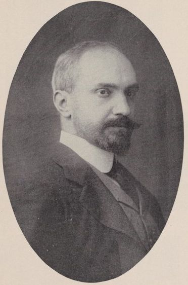 Spanish-American philosopher and writer G. Santayana, early in his career